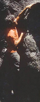 Bob Kamps